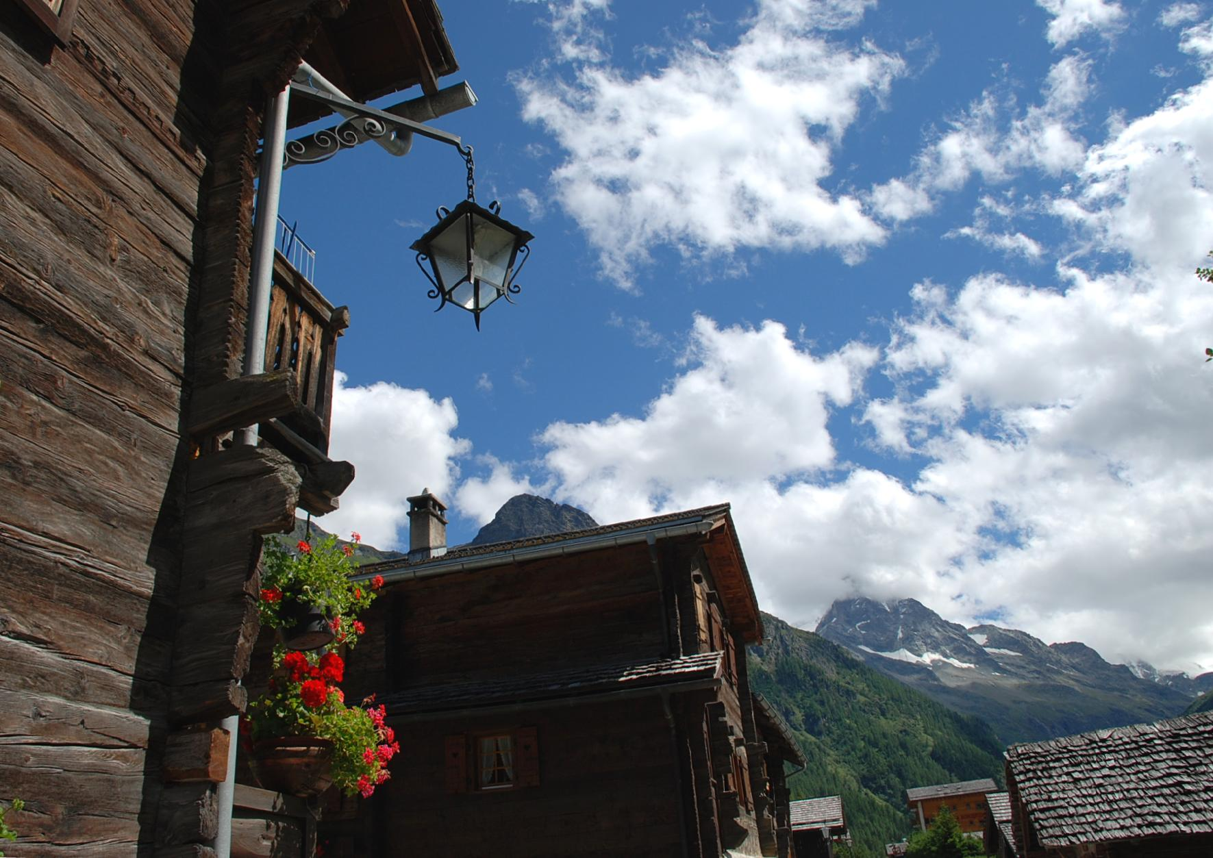 Old houses of Zinal, Valais, Switzerland